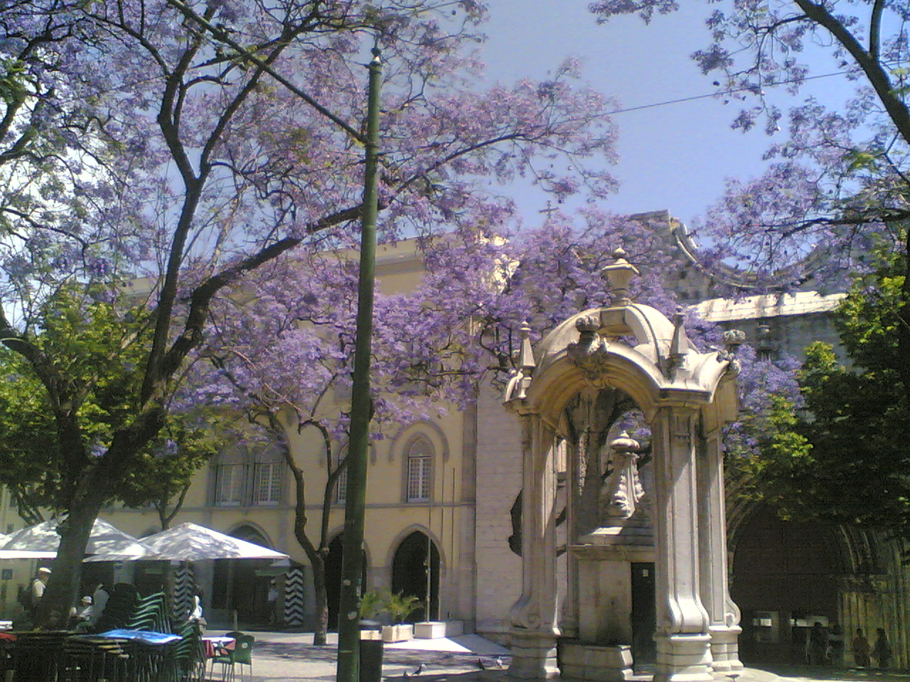 Largo do Carmo in Lisbon with blossoming jacarandas